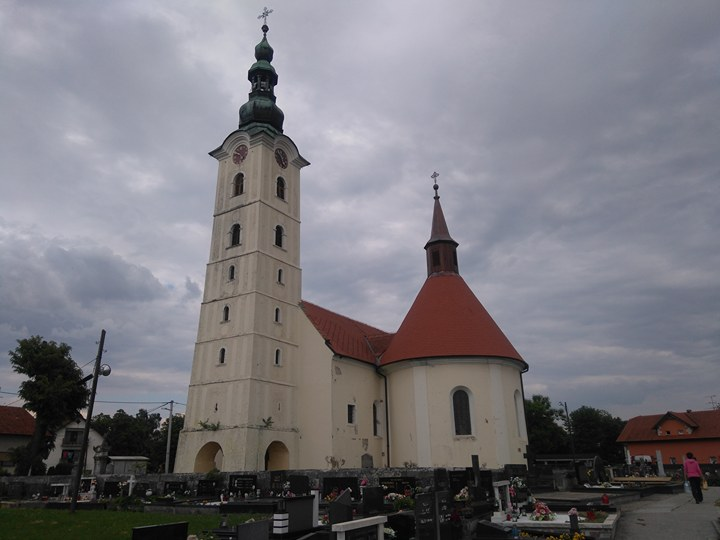 17th century church in Brdovec, Croatia